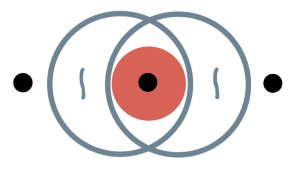 Rendering of the signature on the Lindbergh baby ransom notes